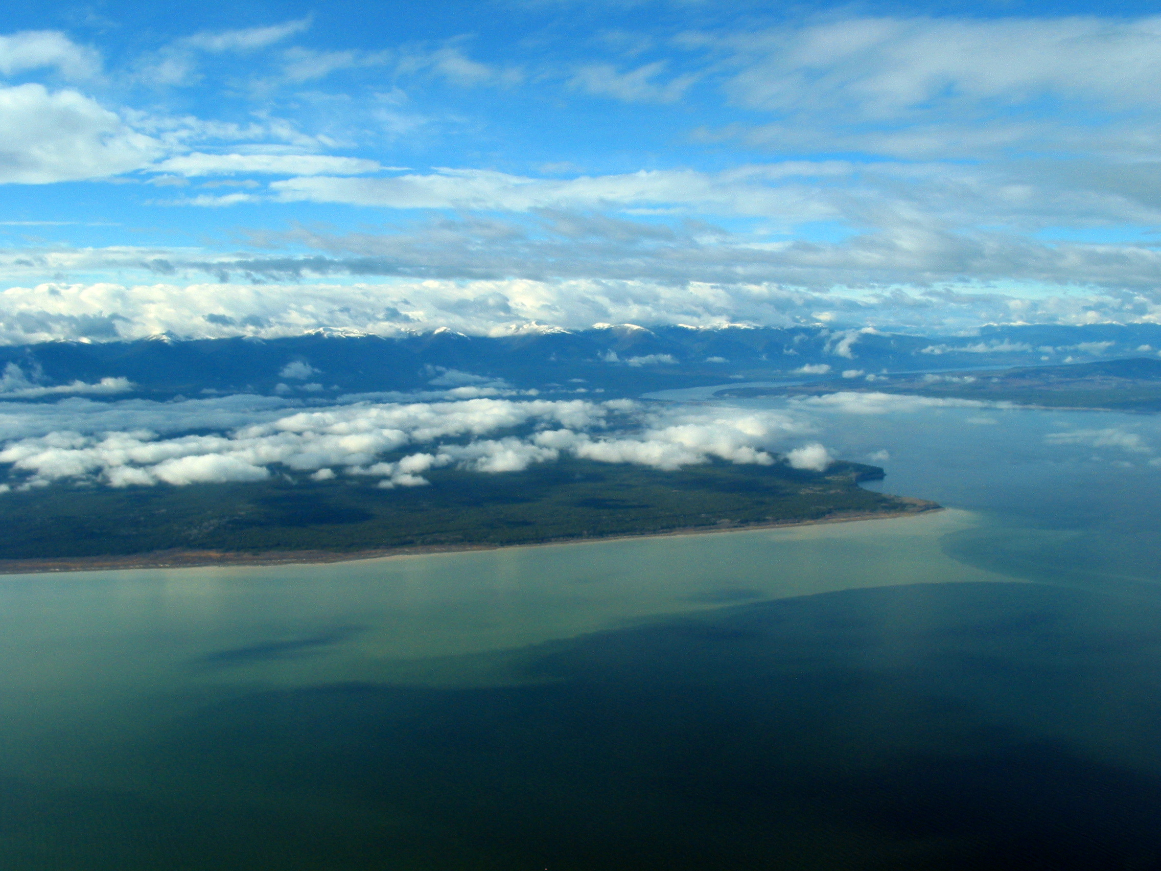 Ominica Arm, Williston Lake